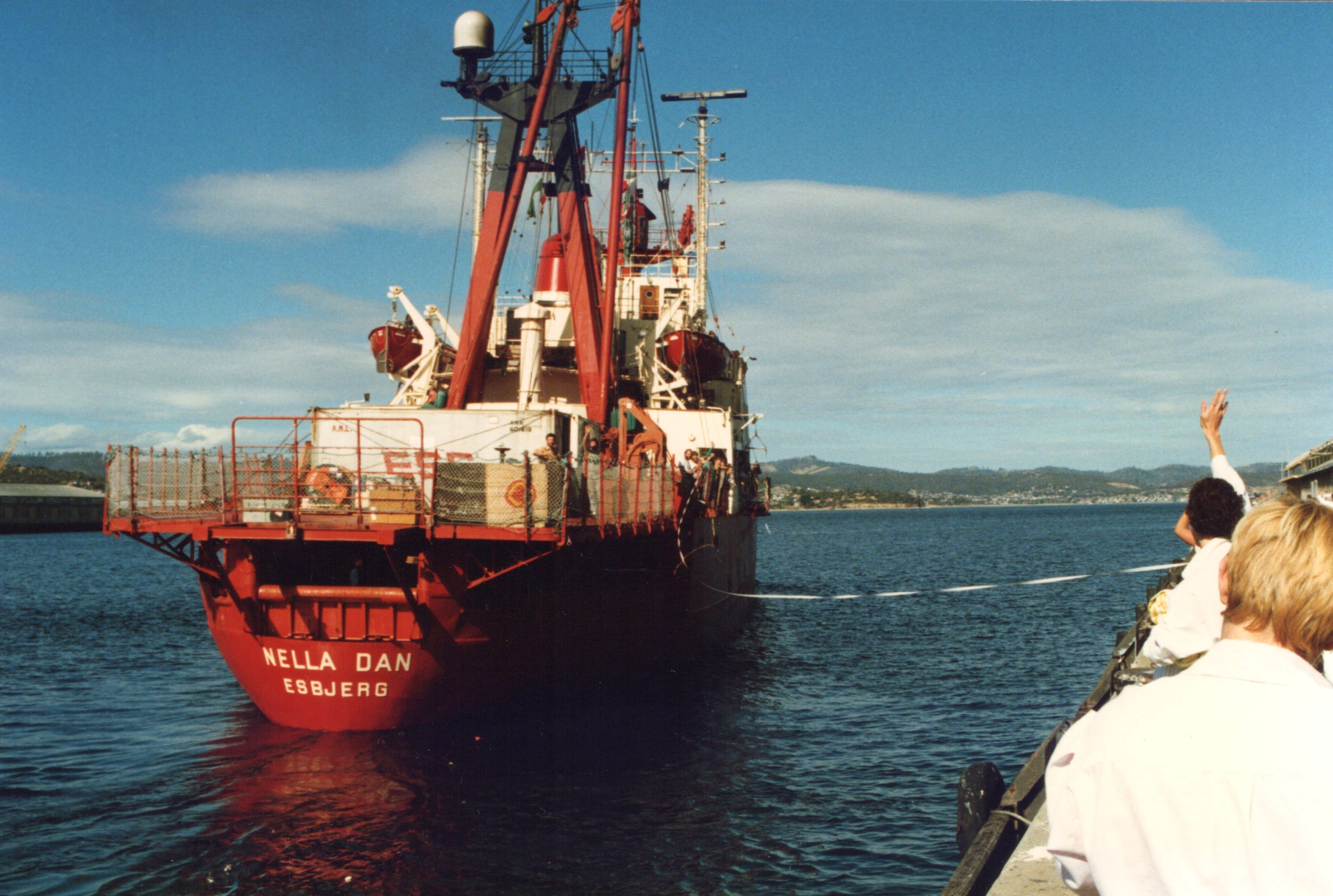 The Australian Antarctic research vessel "Nella Dan" leaving Hobart, 1987 (1) (Tony Rees photograph)